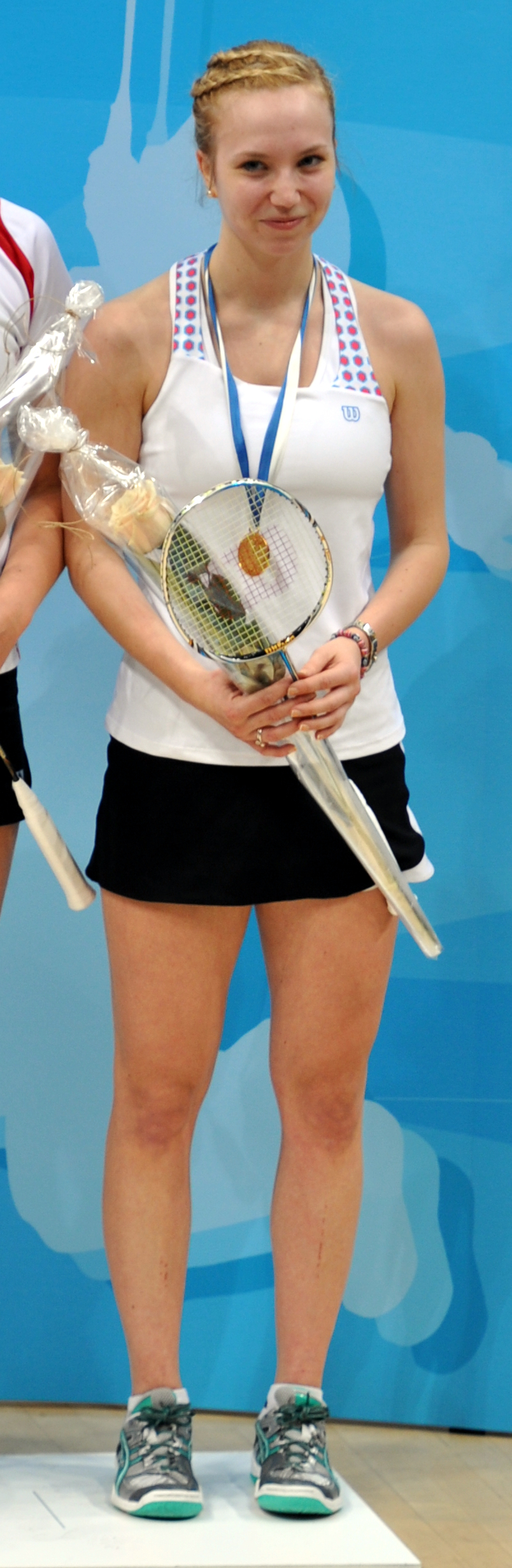 Jenny Nyström is a female badminton player from Finland.